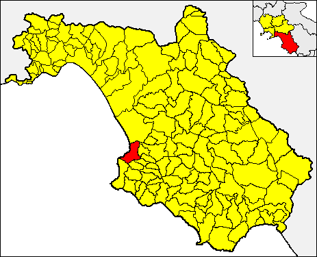 Locator map of the municipality of Agropoli (red) within the Province of Salerno